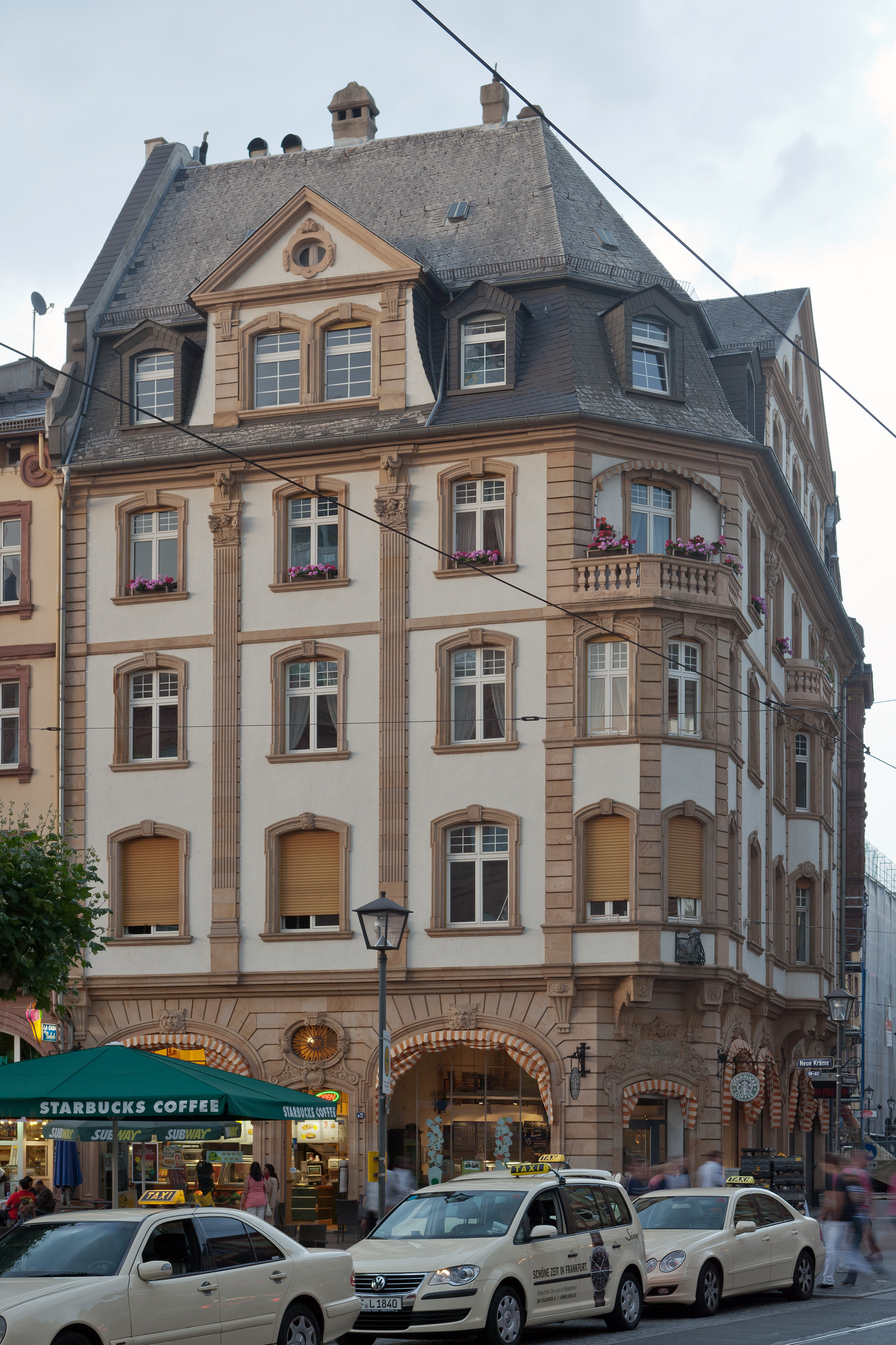 Frankfurt on the Main: Braubachstraße (Braubach Street) 36 / Neue Kräme (New Market) 2 as seen from the southwest